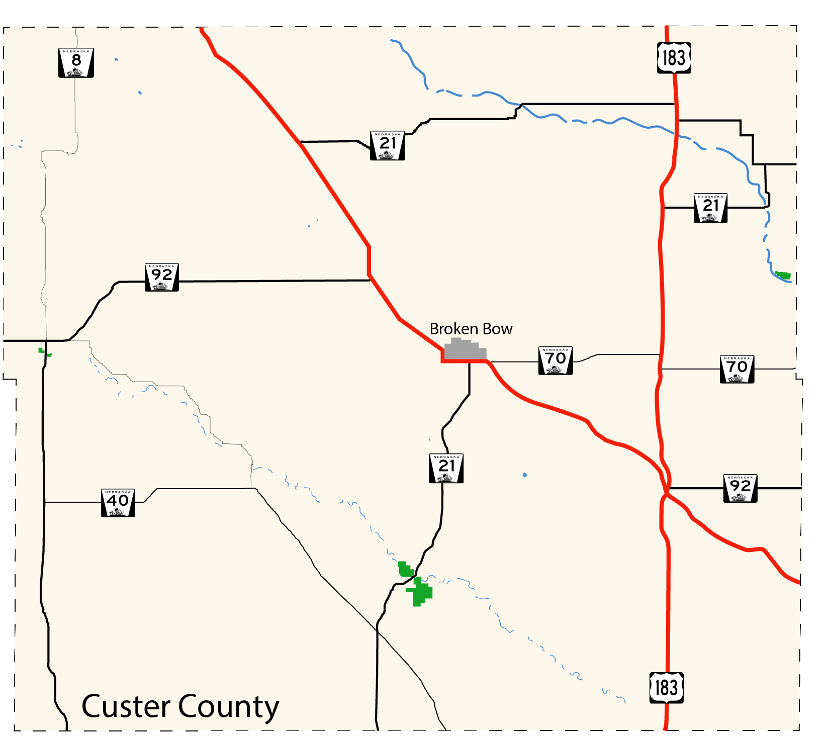 Custer County Nebraksa